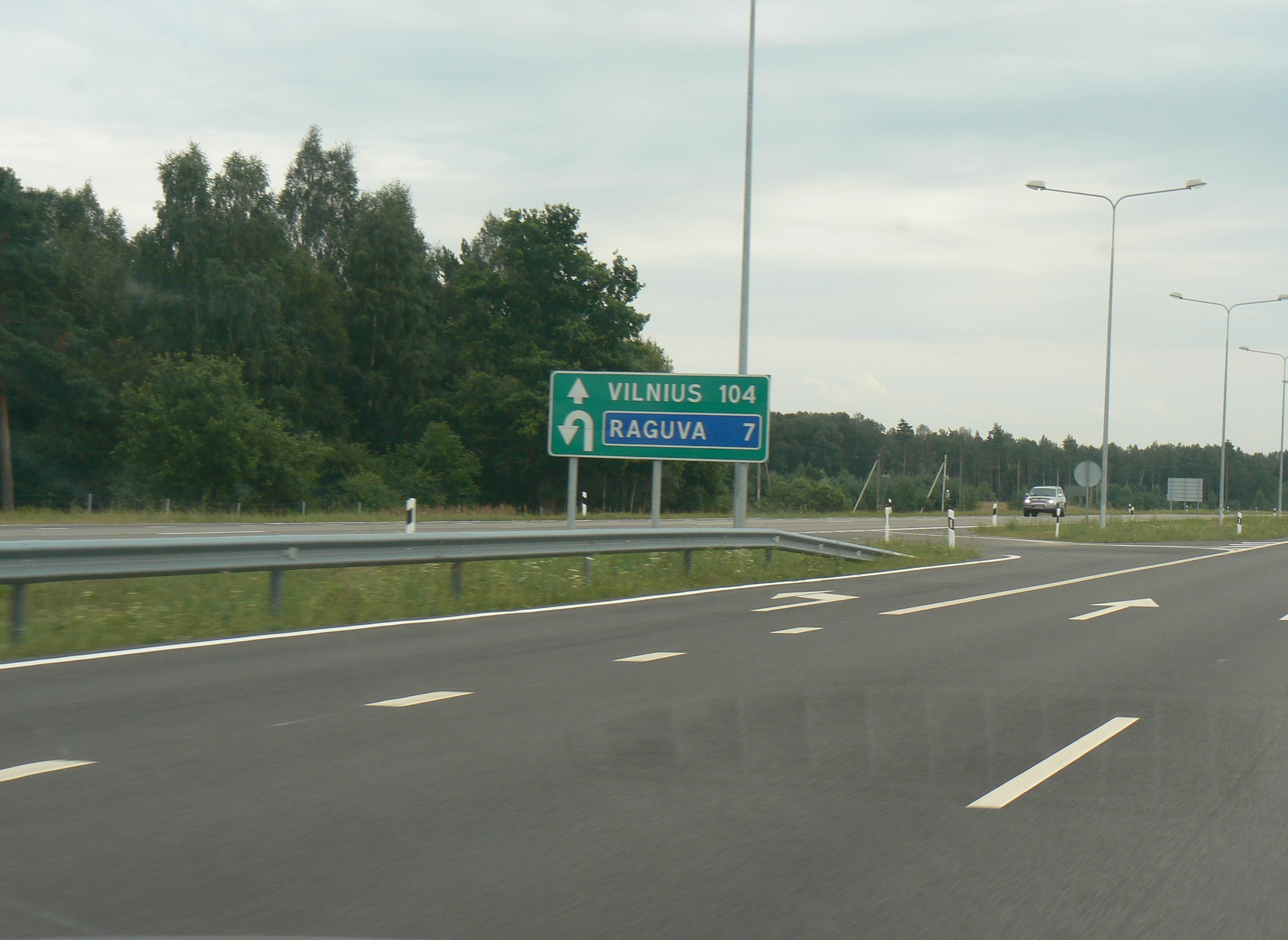 U turn lane on Lithuanian motorway A2.